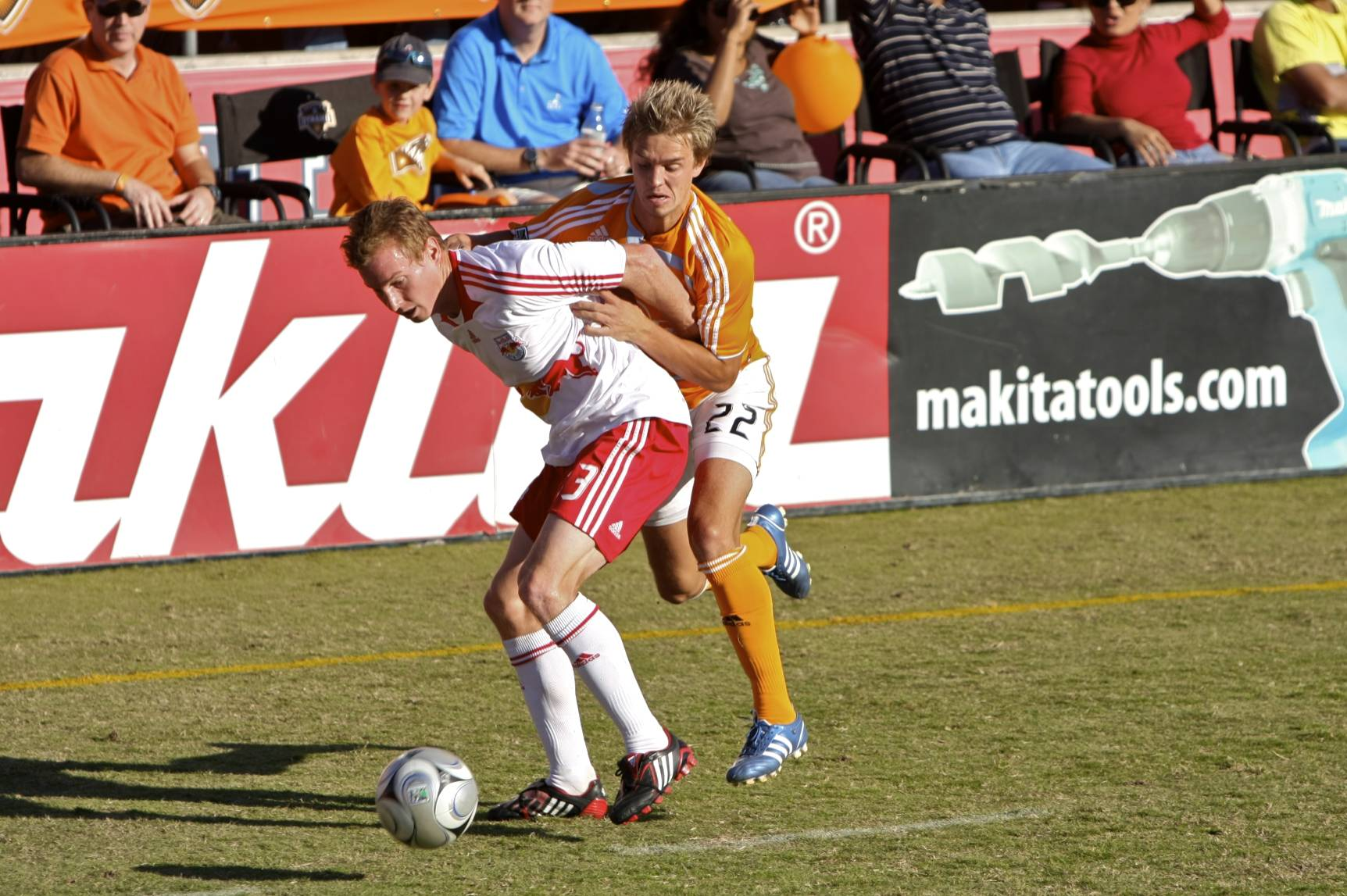 Stuart Holden of Houston Dynamo (right) vs Chris Leitch of Red Bull New York